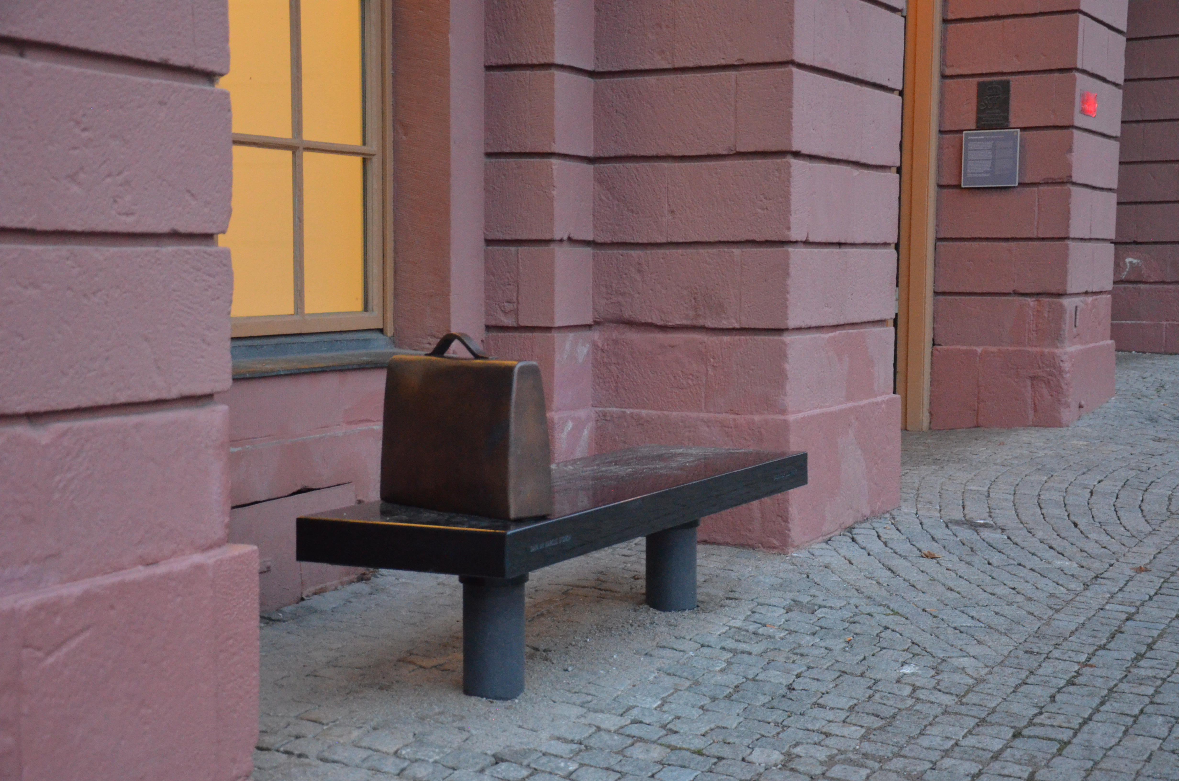 R.W., sculpture by Ulla Kraitz, outside the MInsitry of Foreign Affairs, Stockholm, Sweden